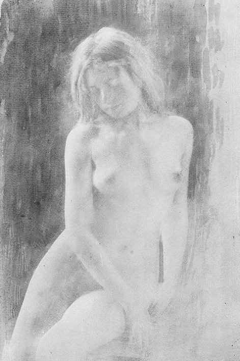 Etude de Nu